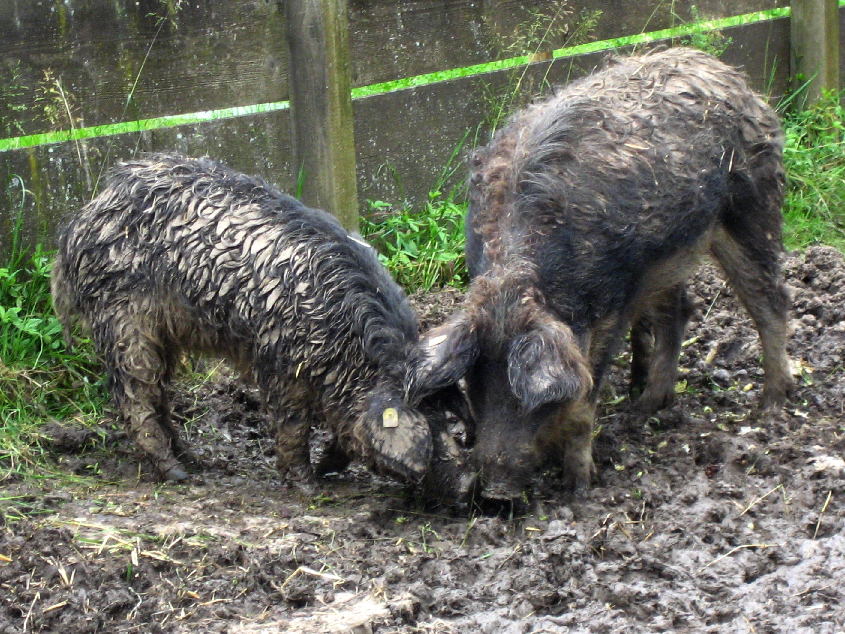 Zürich, Weinegg quarter (Riesbach, district 8) : Mangalitsae at Estate (Quartierhof) Weinegg.